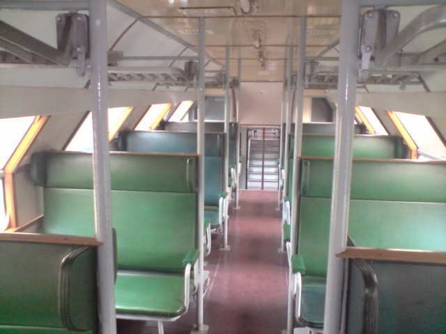 Upper deck in Bipa